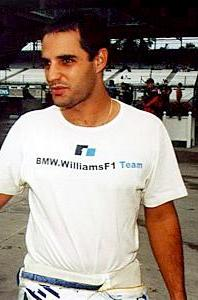 Juan Pablo Montoya, Indianapolis, 2002, by Rick Dikeman (cropped image)